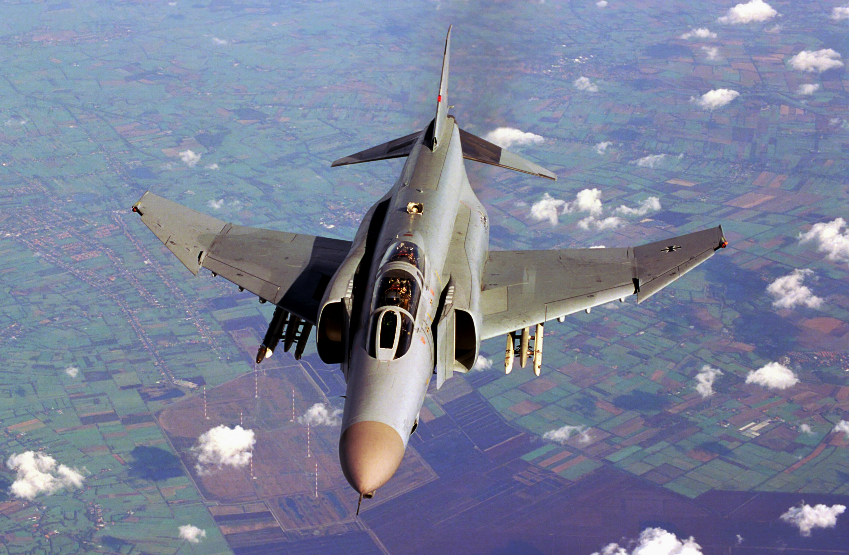 A German Luftwaffe McDonnell Douglas F-4F Phantom II fighter approaches a U.S. Air Force Boeing KC-135R Stratotanker from 100th Aerial Refueling Wing, near RAF Mildenhall (UK), on 16 October 1997.